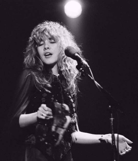 Stevie in 1970s or 80s